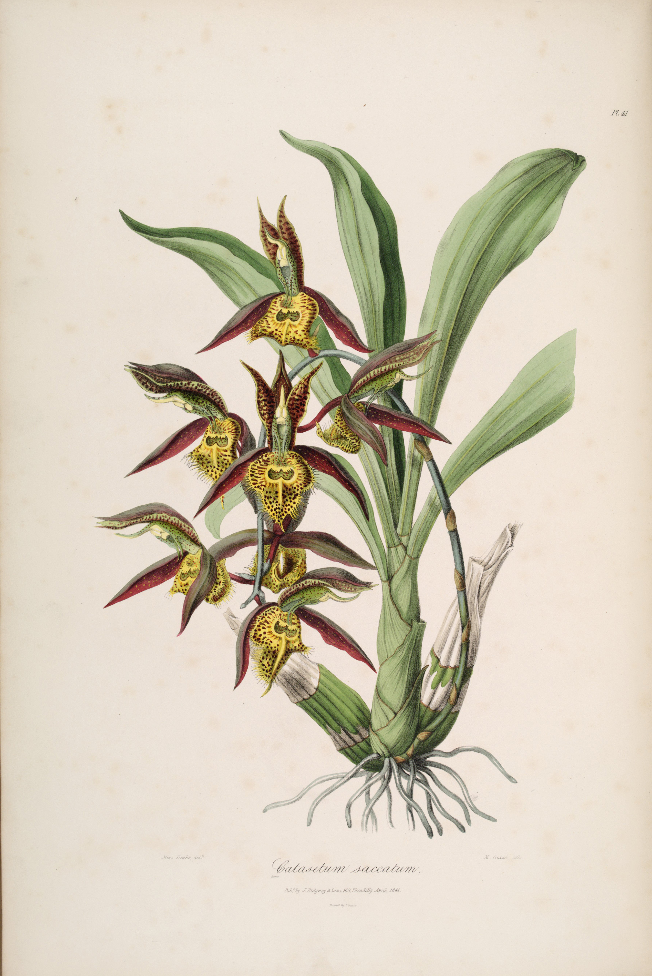 Illustration of Catasetum saccatum